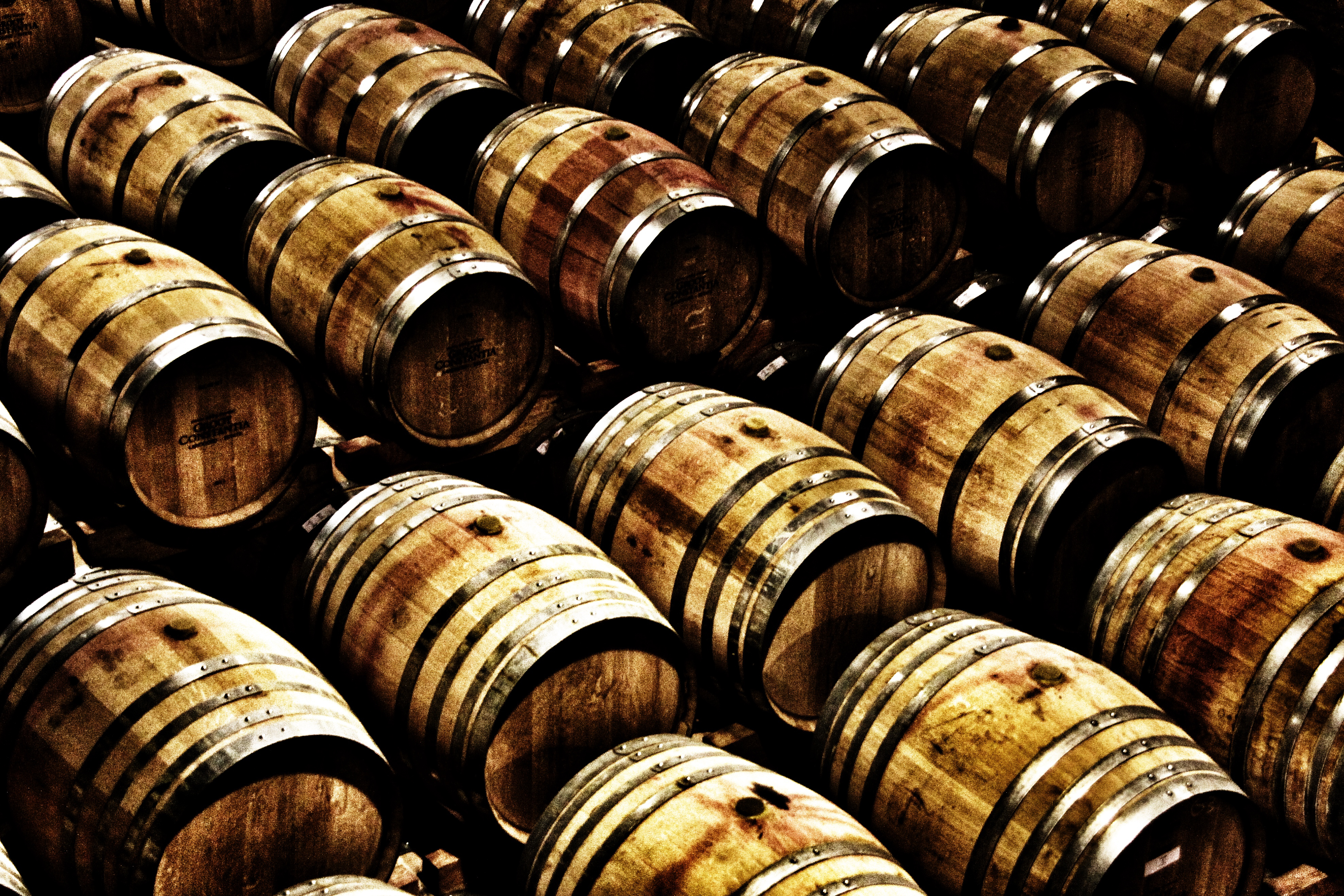 This media shows a South African Protected Site with SAHRA file reference 9/2/111/0015.